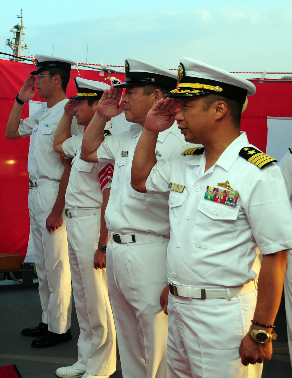 PEARL HARBOR (June 2, 2010) Vice Adm. Richard W. Hunt, commander of Combined Task Force, is greeted as he arrives aboard the Japan Maritime Self-Defense Force guided-missile destroyer JS Atago (DDG 177) for a Rim of the Pacific (RIMPAC) 2010 reception. ↑ See the official site of Escort Flotilla 3, JMSDF.